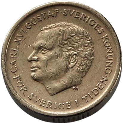 Swedish 10 crown coin front side